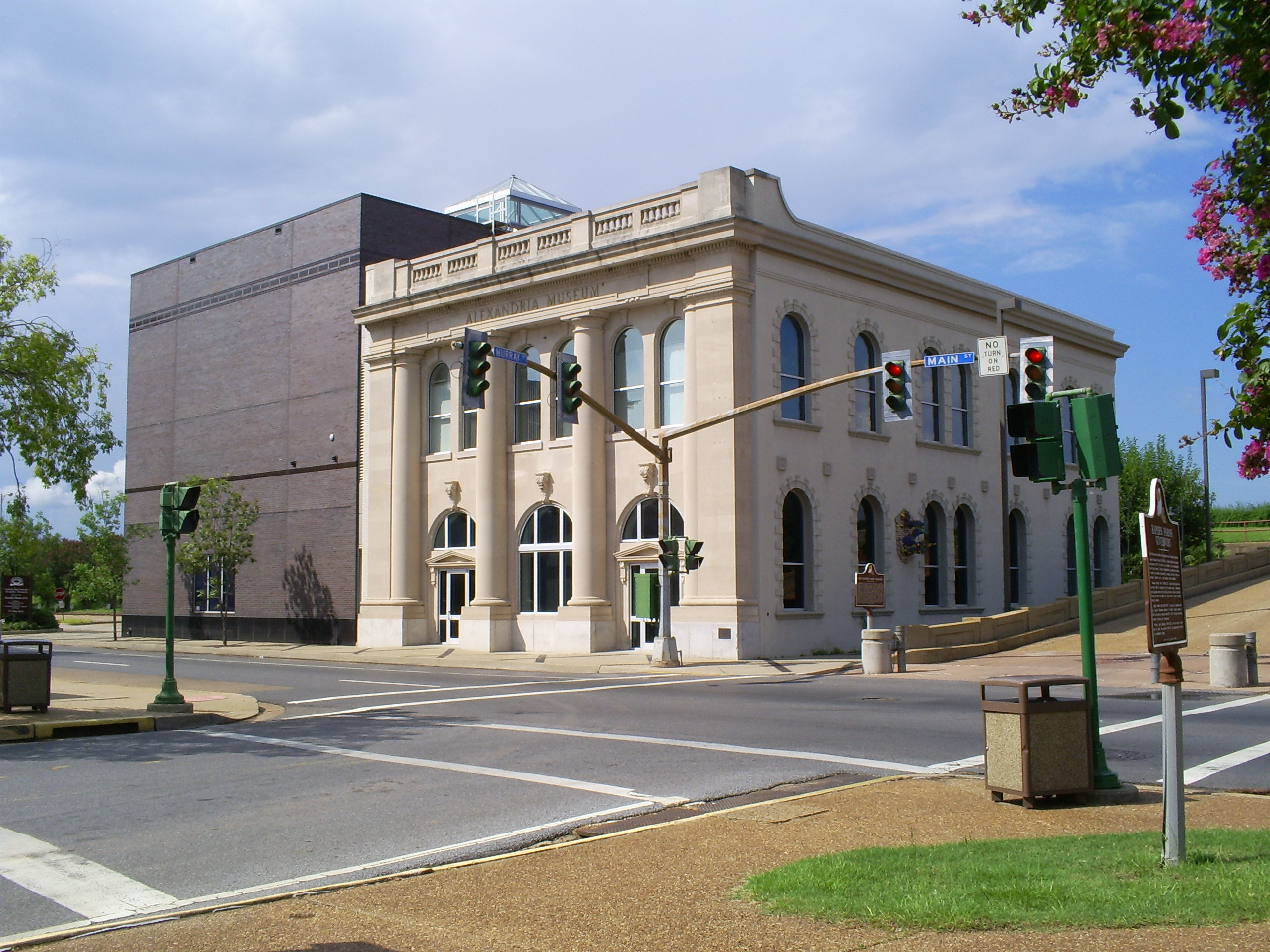 A view of the Alexandria museum in Rapides Parish Louisiana, USA. Once a bank, it is listed on the National Register of Historic Places.